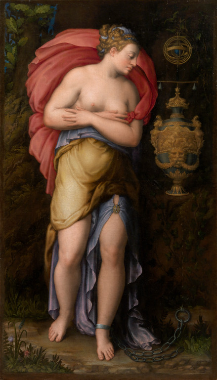 Allegory of Patience, maybe by Giorgio Vasari and Gaspar Becerra, in Palazzo Pitta (Florence).